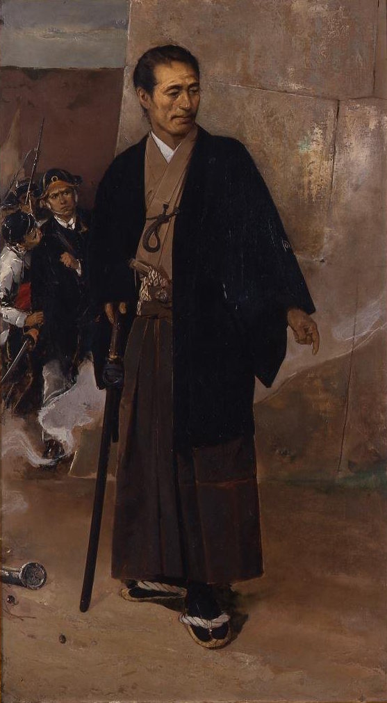 Portrait of Katsu Kaishu